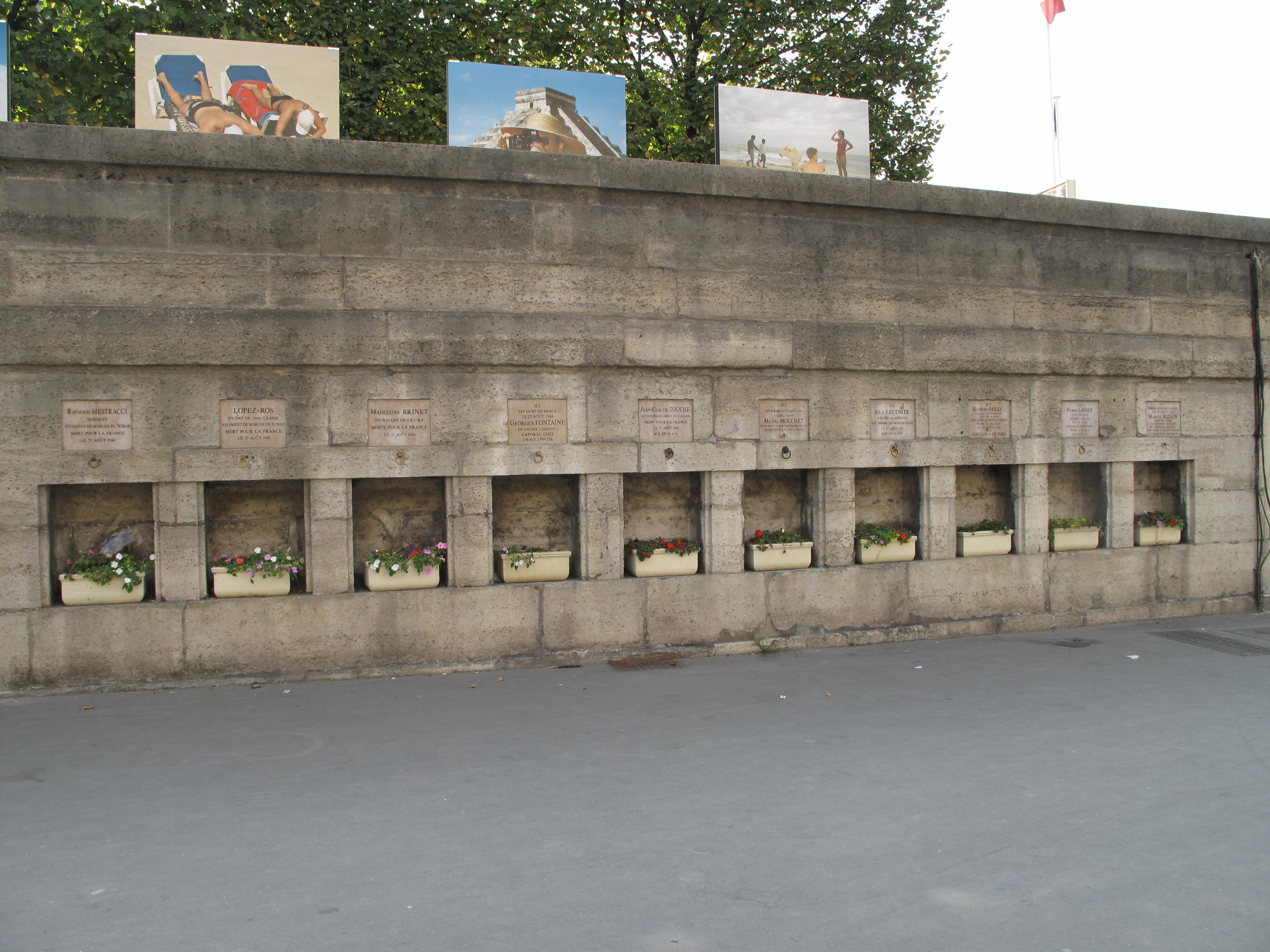 Memorial of the soldiers and civilians dead on the place de la Concorde for liberation of Paris in august 1944. Rue de Rivoli, Paris 1st arr.